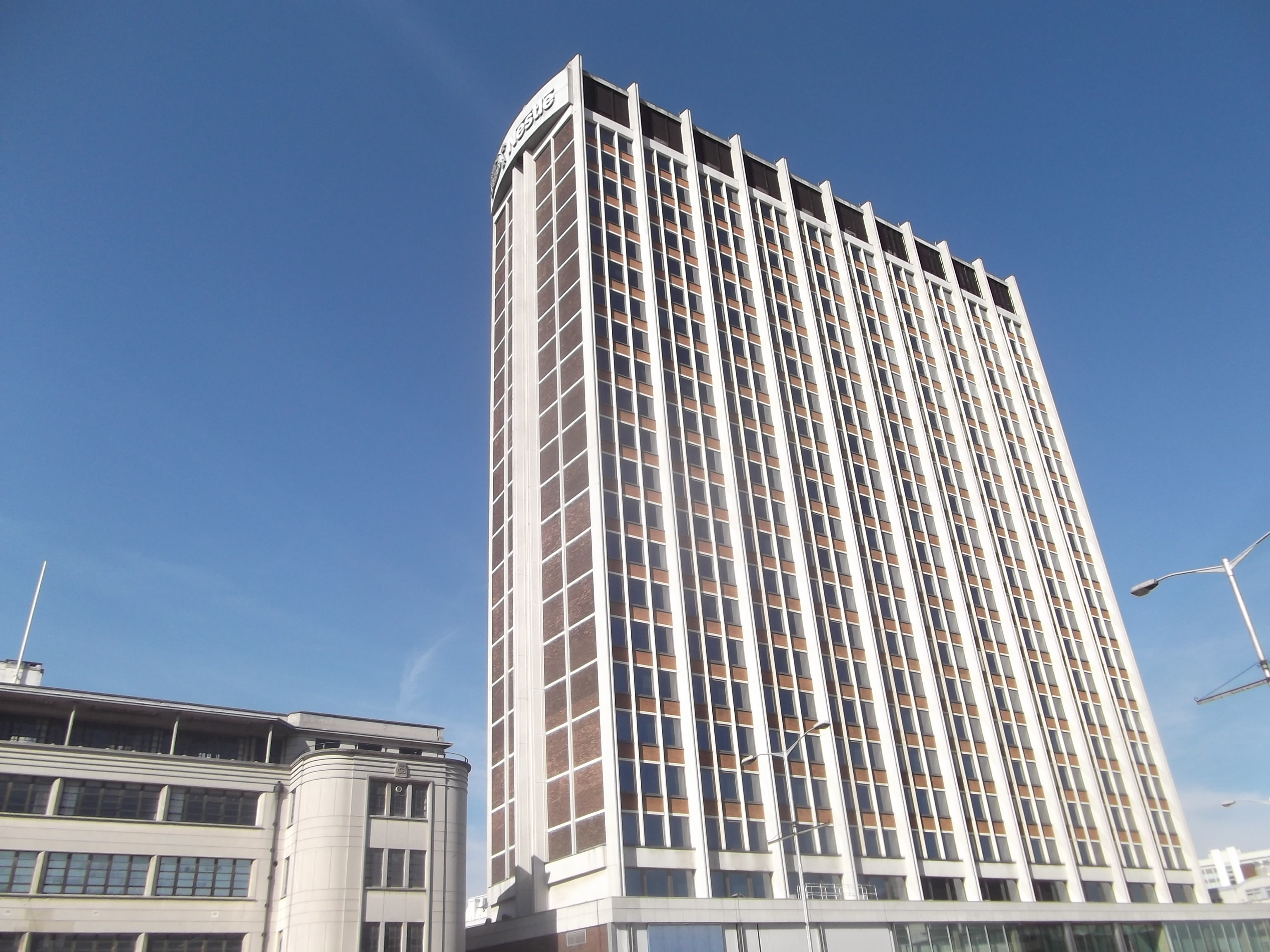 Nestle Tower in Croydon